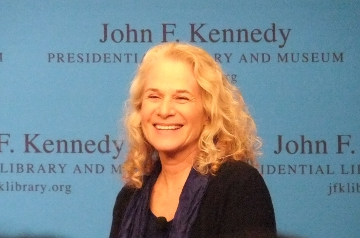 Carole King-legendary songwriter Carole King was interviewed by correspondent Mike Barnicle about her new book"A Natural Woman". This was at the JFK Presidential Library-Boston, Mass. on April 12, 2012.